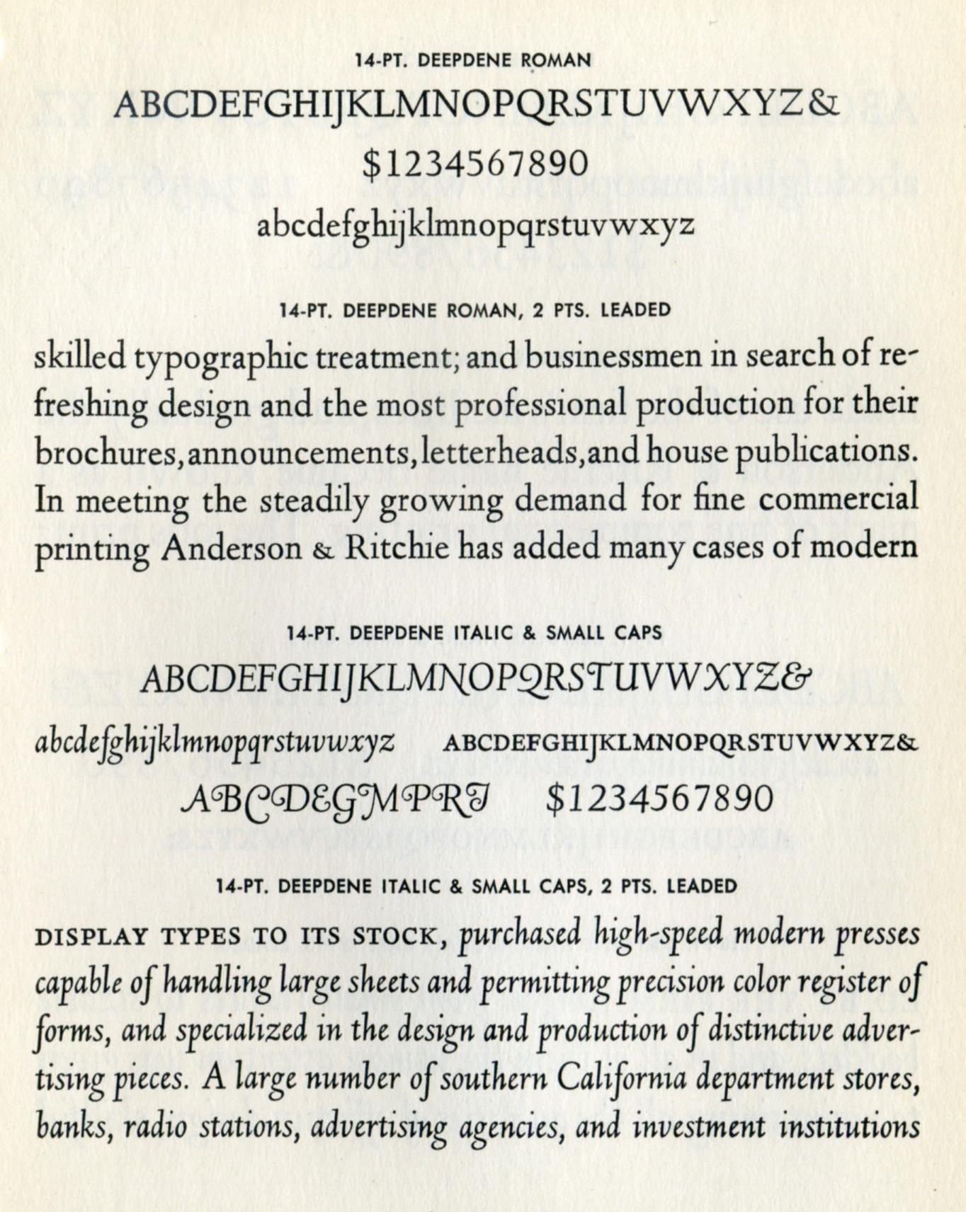 Sample of Deepdene in roman (regular) and italic, in metal type.